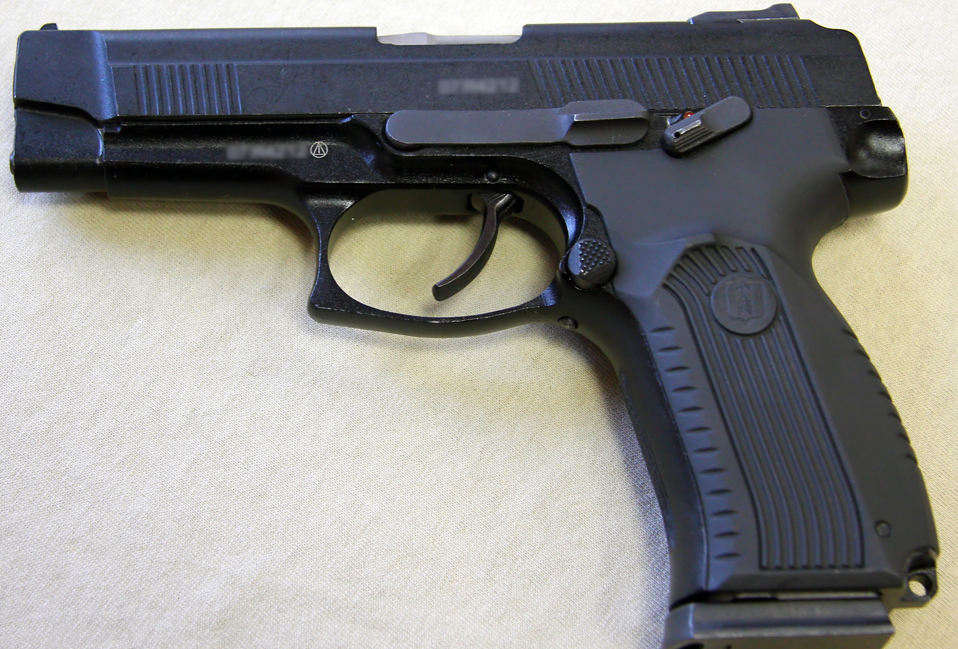 9mm PYa 6P35 Yarygin pistol, also know as MP-443 Grach